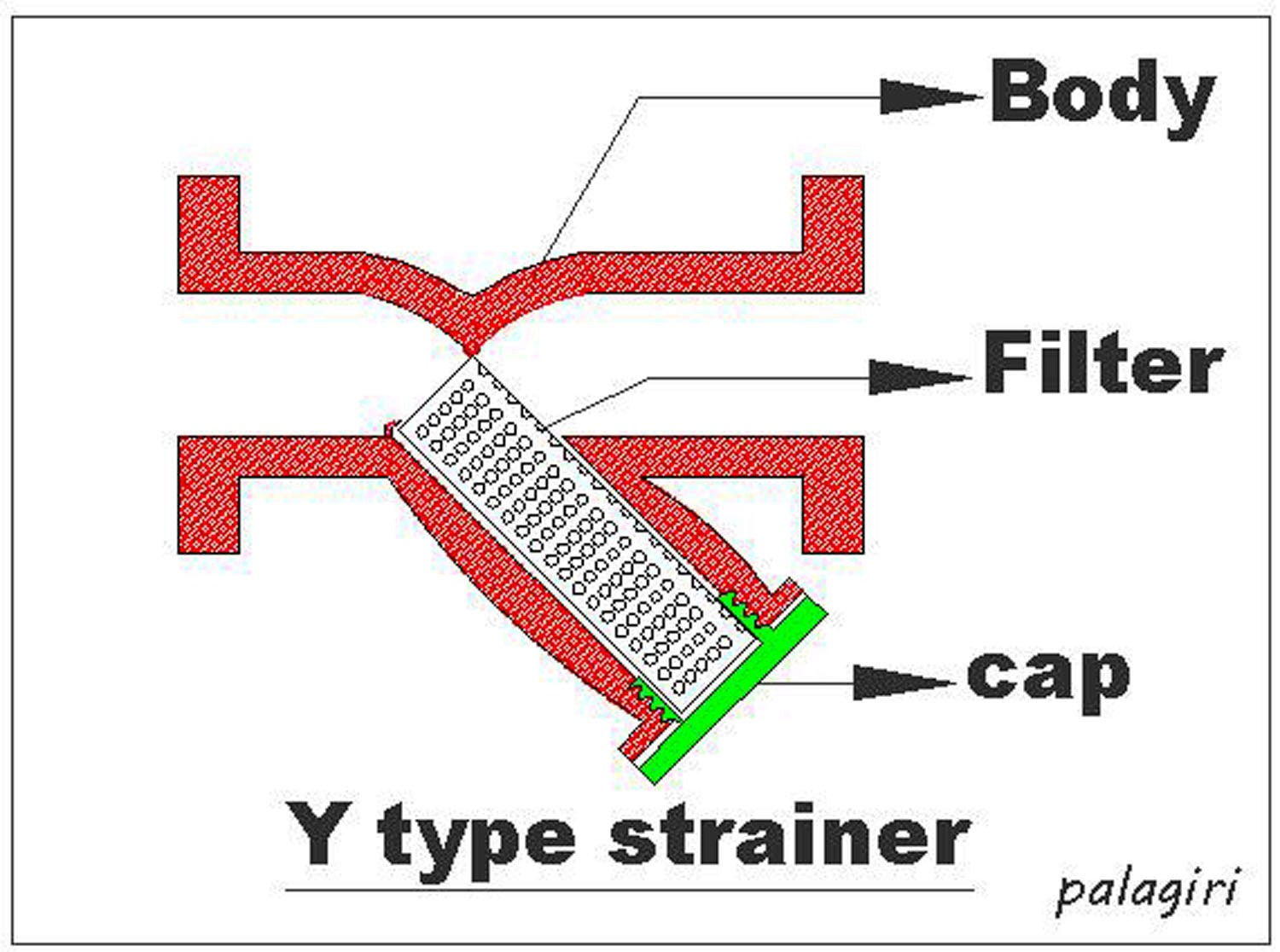 cross section of Y type strainer